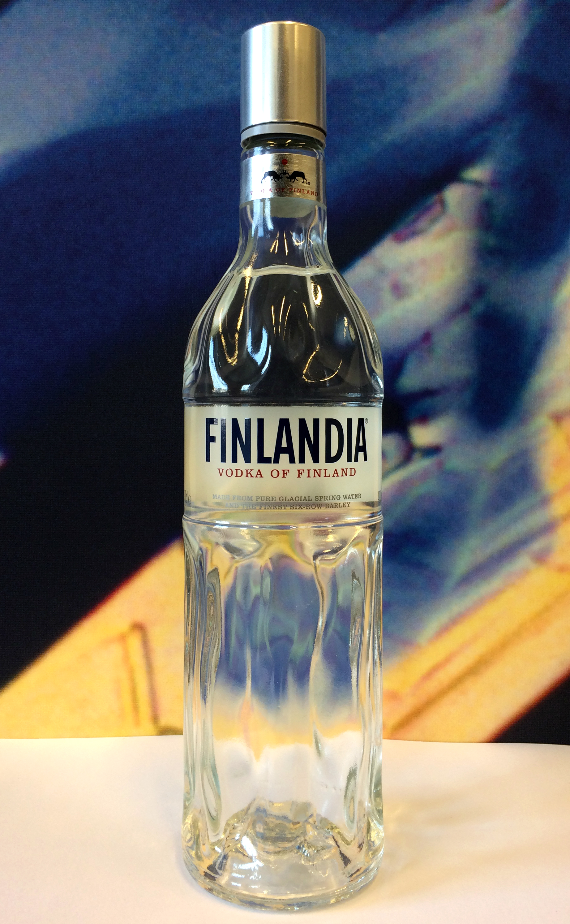 A bottle of Finlandia Classic vodka